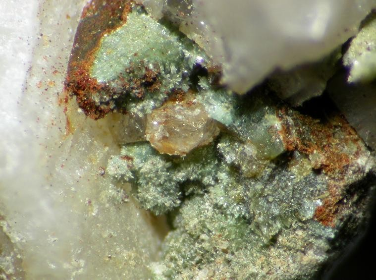 Köttigite Locality: Ore dumps, Richelsdorf Smelter, Süss, Richelsdorf District, North Hesse, Hesse, Germany Green crystals of Köttigite from an uncommon locality. Field of view 4 mm. Specimen and photo Leon Hupperichs.